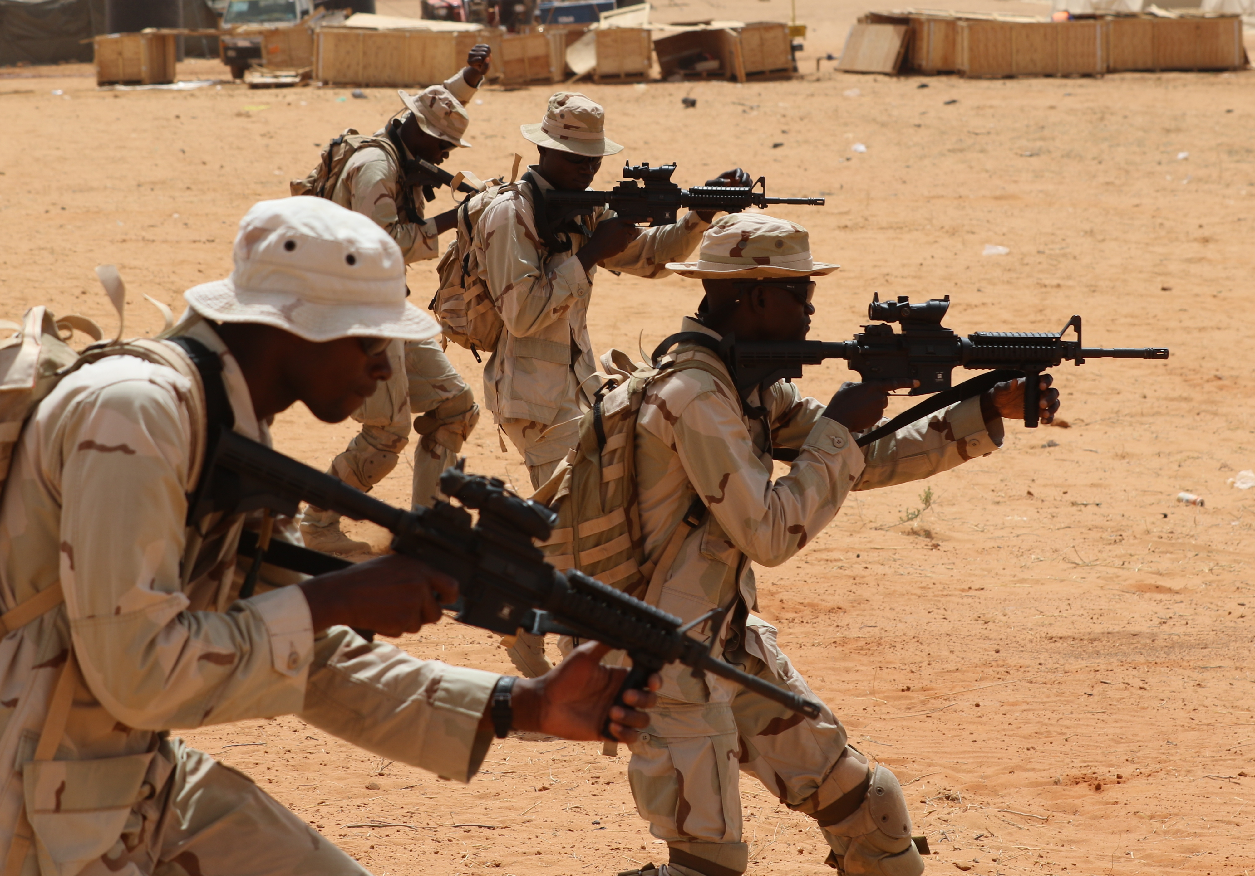 A squad of Senegalese soldiers assaults the objective in a small unit tactics class in Flintlock 18, April 12, 2018 Tahoua, Niger.